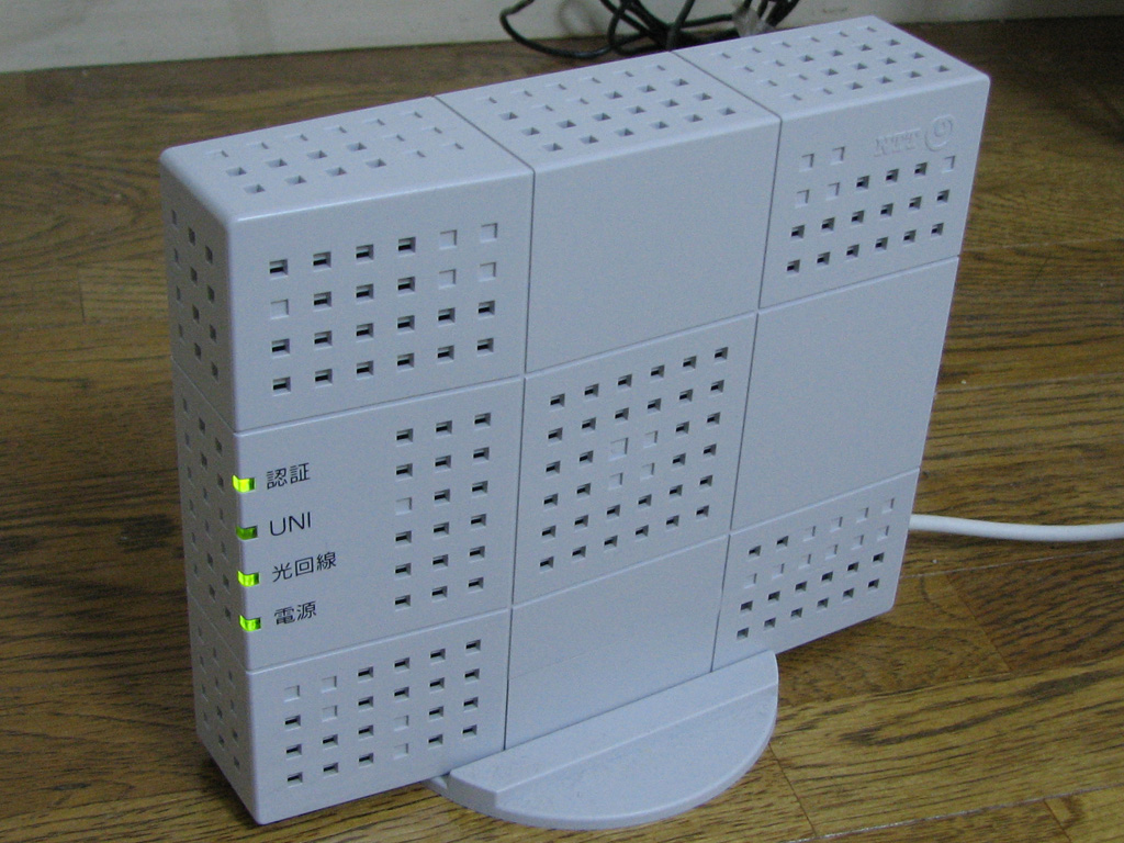 ONU of NTT-East Japan model GE-PON-ONU Type.D